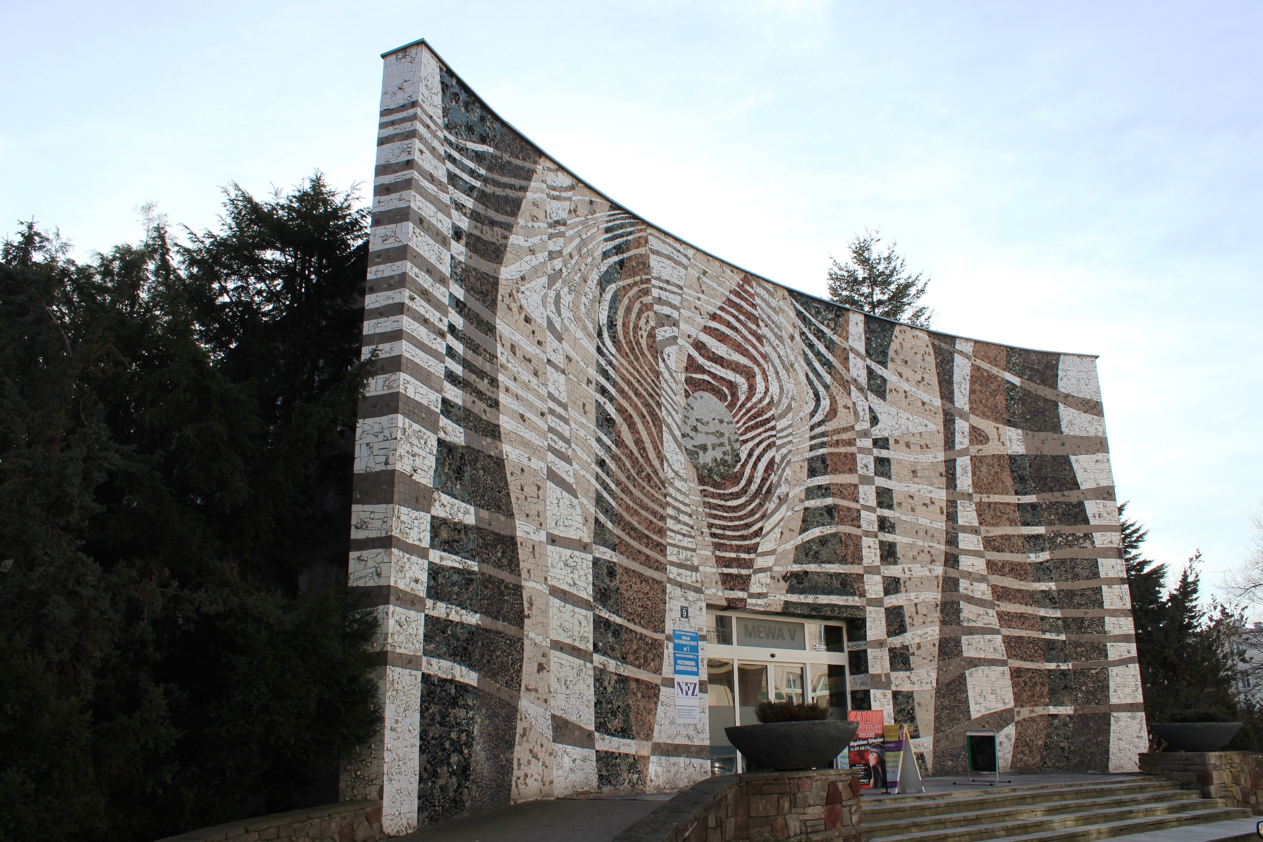 Mewa V Sanatorium in Kołobrzeg